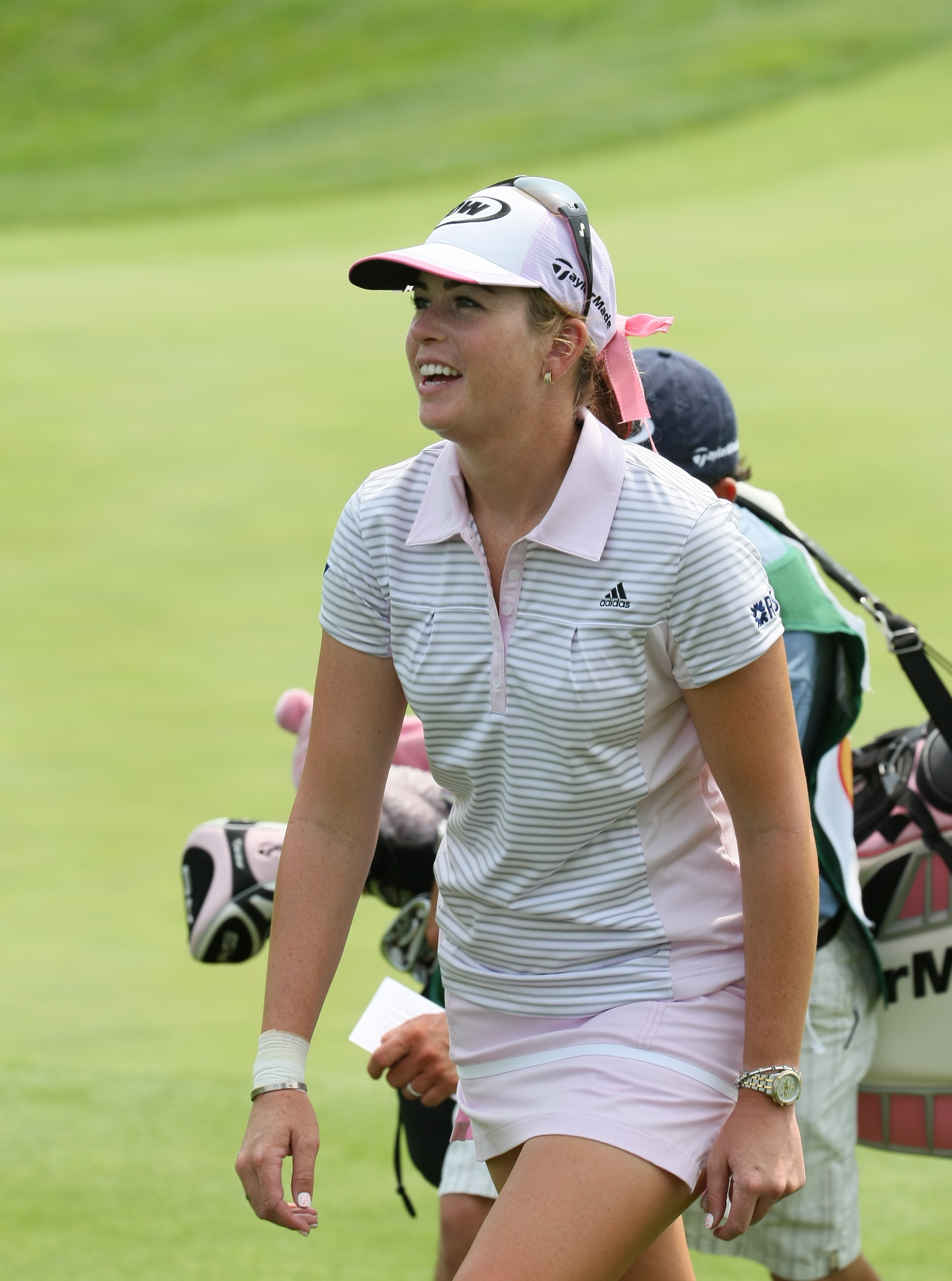 HAVRE DE GRACE, MD - JUNE 09: Paula Creamer (USA) during Pro-Am before 2009 LPGA Championship held at Bulle Rock Golf Course, on June 9, 2009 in Havre de Grace, Maryland. (Photo by Keith Allison)